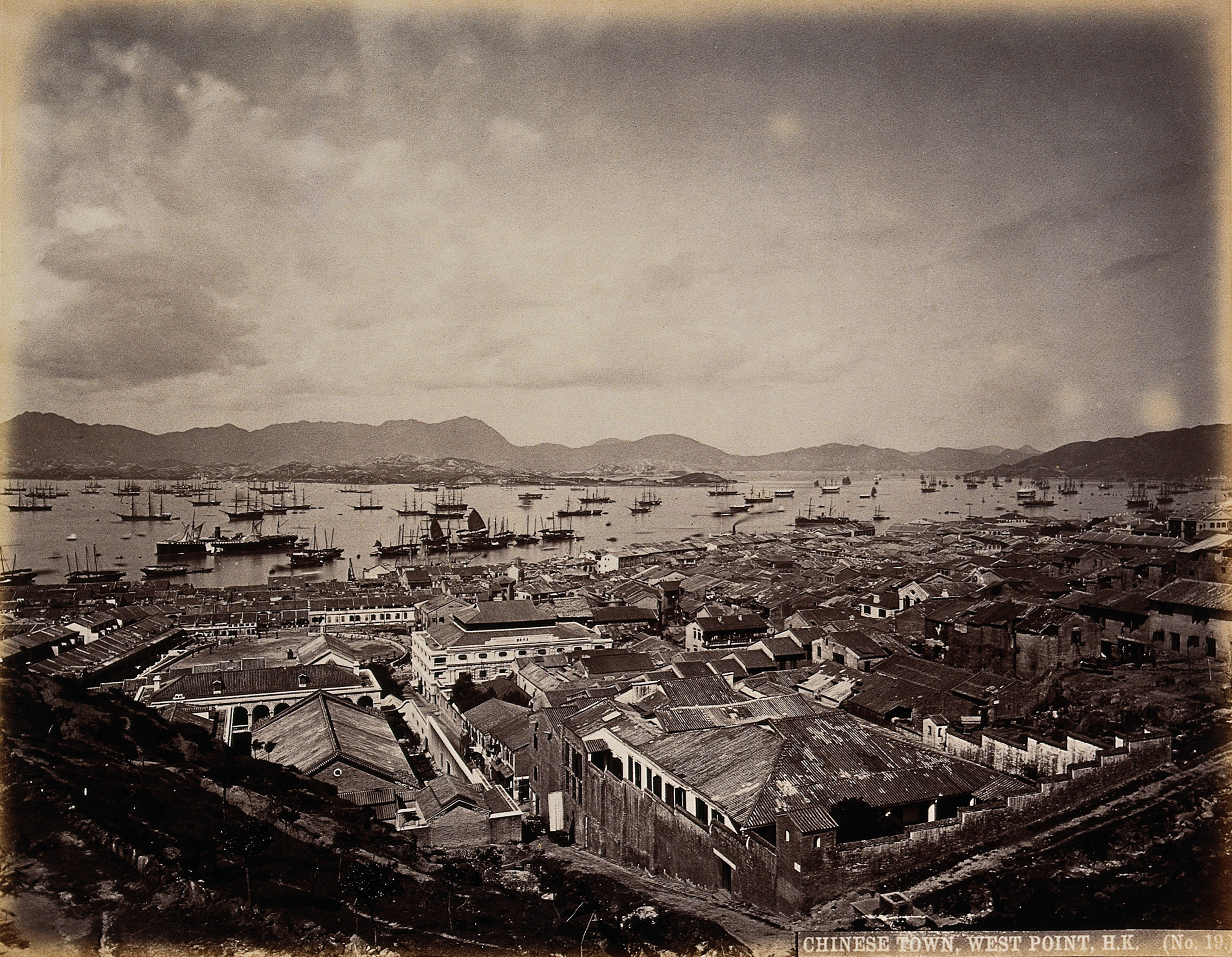 The Chinese town, West Point, Hong Kong. Photograph. Lettering on mount: "Two of the most important native institutions in the colony are given in this view - viz., the Chinese Hospital and the Chinese Theatre. The roof and belfry of the German Mission Church can be seen over the former, while just beyond the church lies a large open space, which the Government has wisely enclosed as a native recreation ground. This part of the ground is named Possession Point. The Theatre may be distinguished by the inscription on the nearest face, visible over the intervening houses. The total native population of Hong Kong is about 120,000 souls."